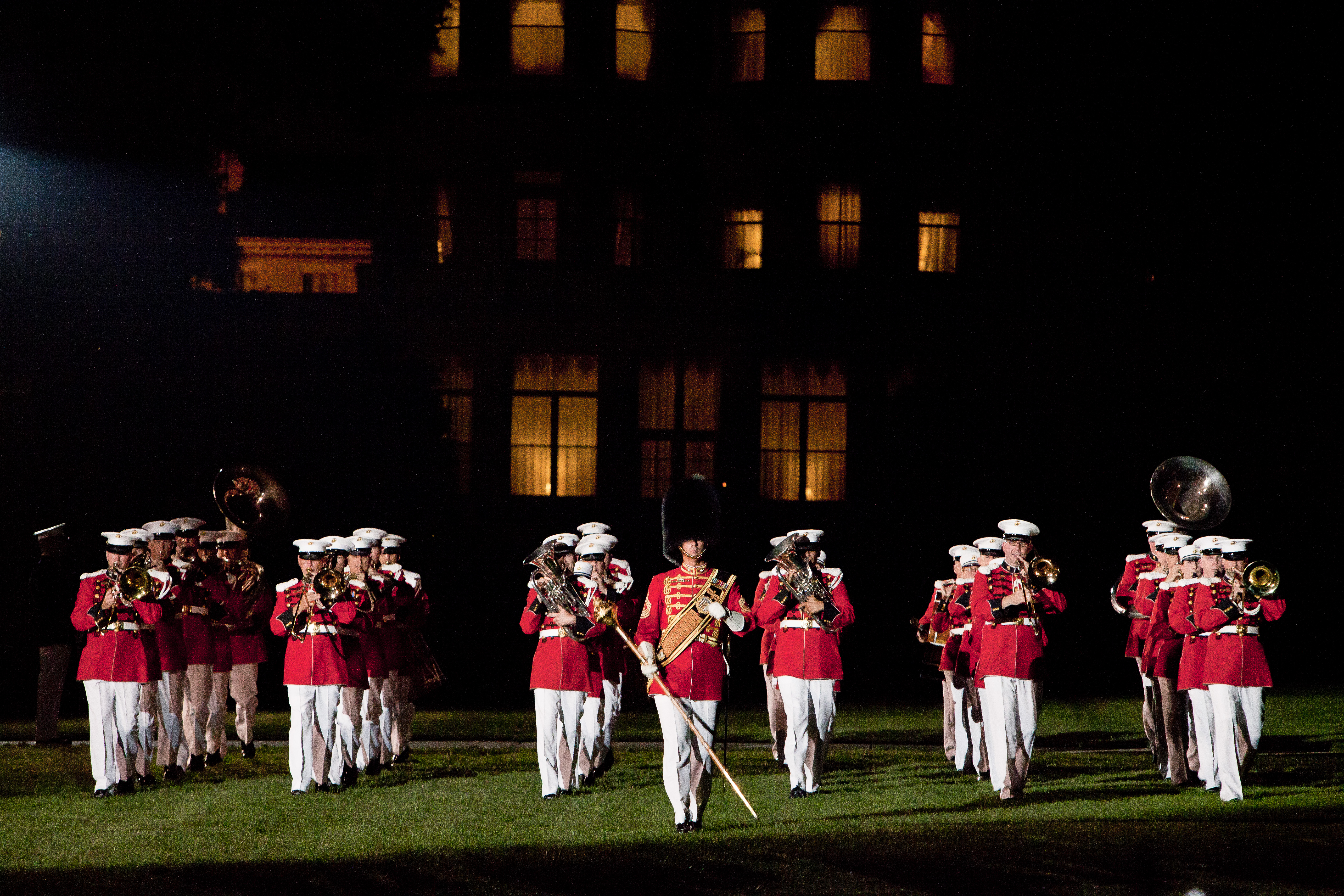 The U.S. Marine Band performs during a Friday Evening Parade at Marine Barracks Washington Aug. 31.